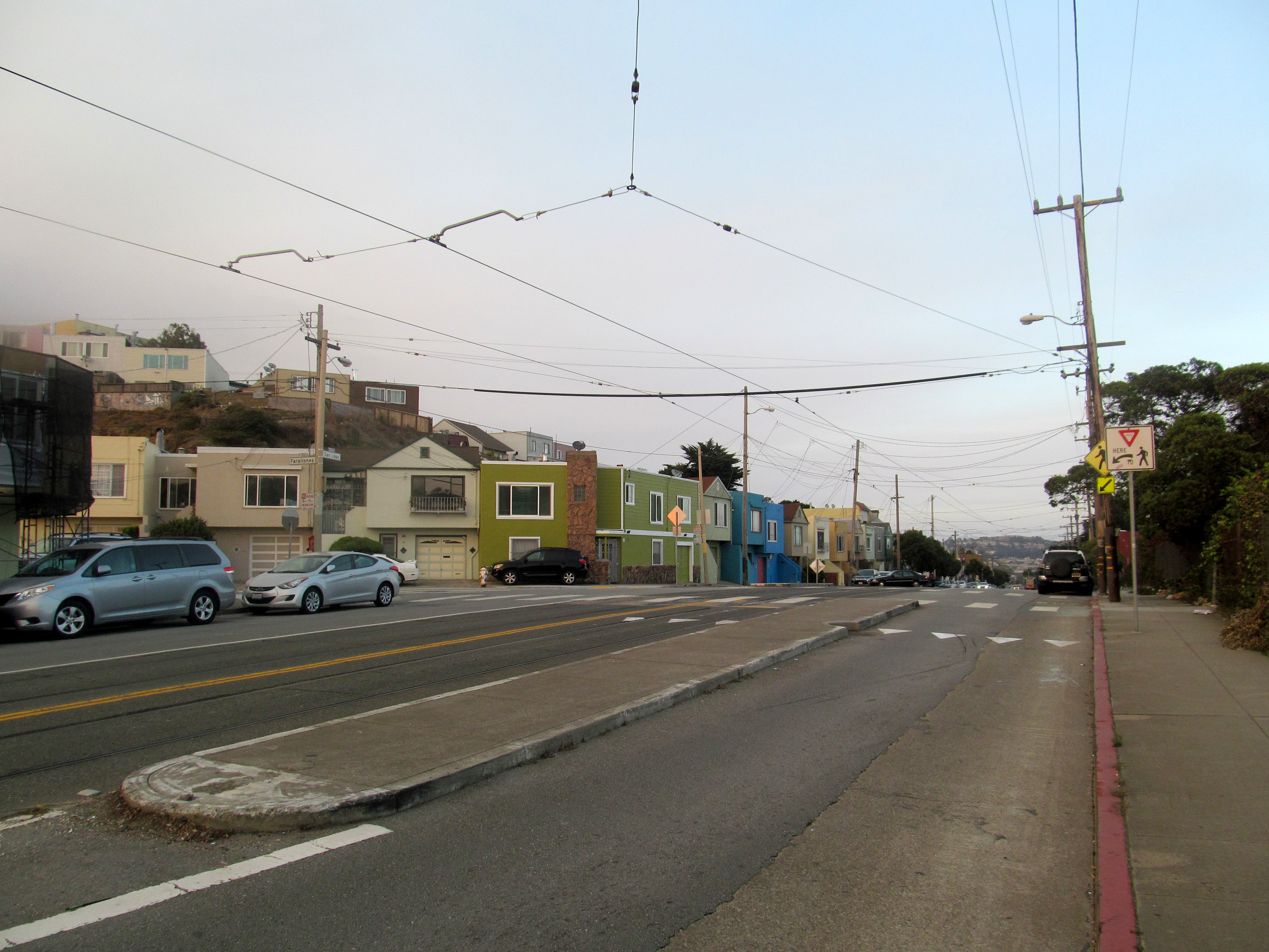 Outbound platform at San Jose and Farallones station in October 2017